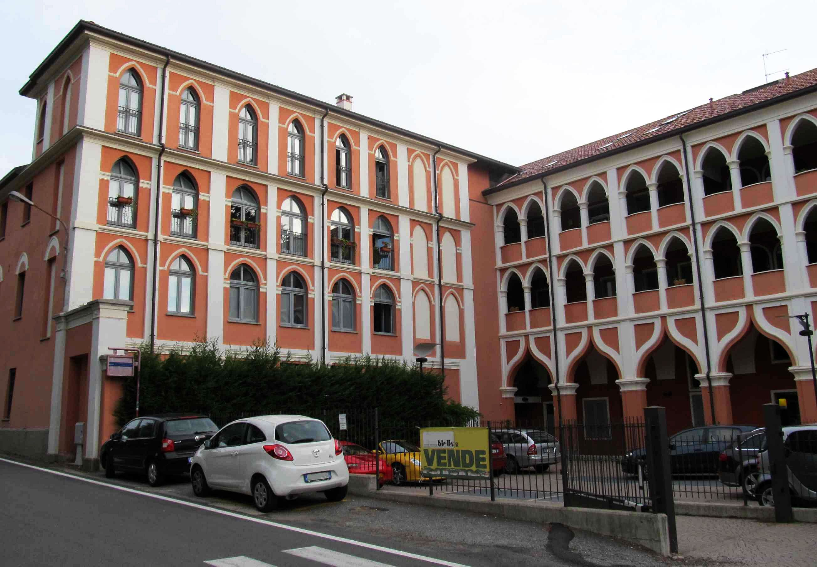 Cossila (Biella, Italy): former hidrohterapic establishment